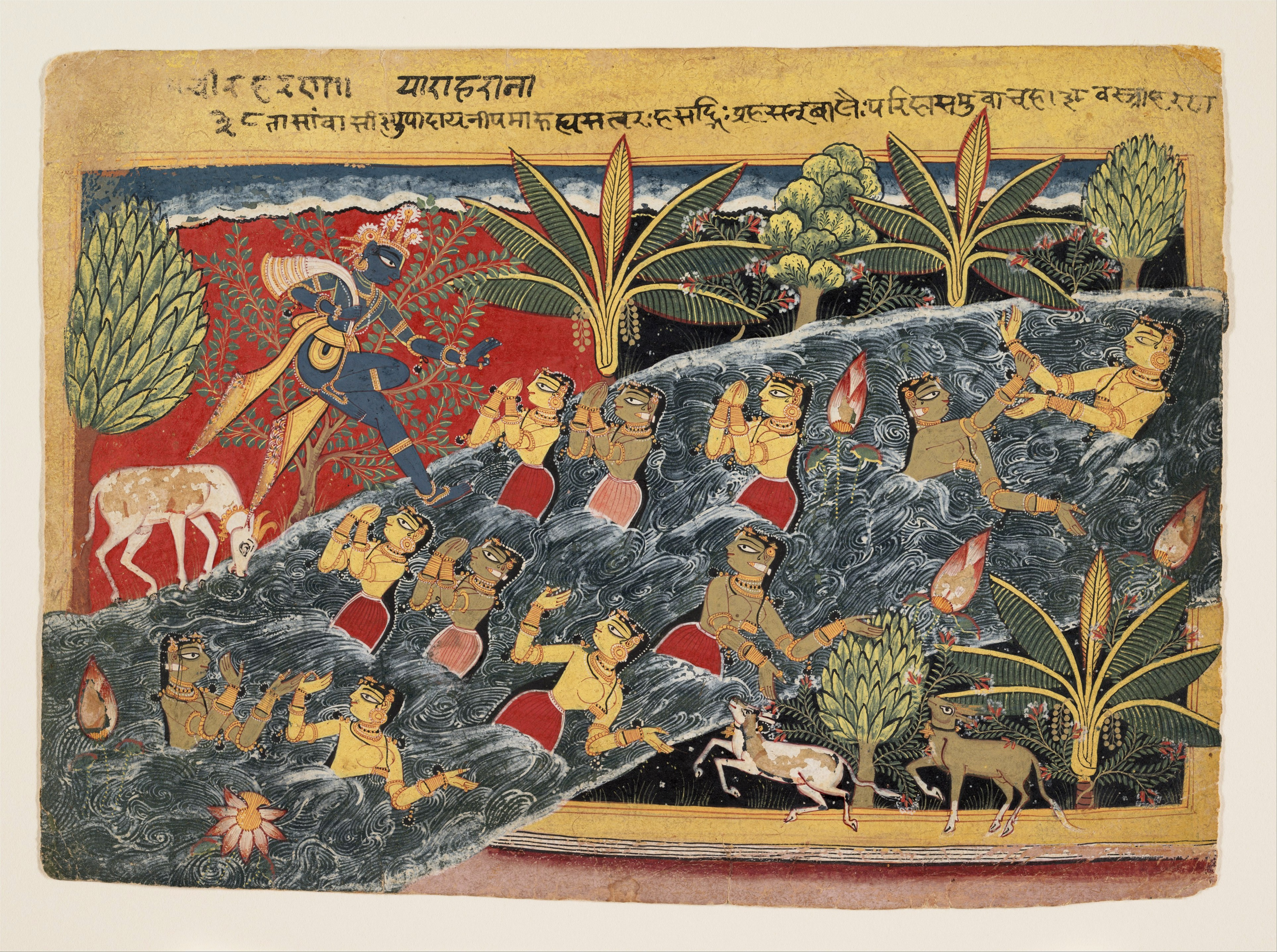 Master of the Isarda Bhagavata Purana. The Gopis Plead with Krishna to Return Their Clothing. Folio from Isarda Bhagavata Purana